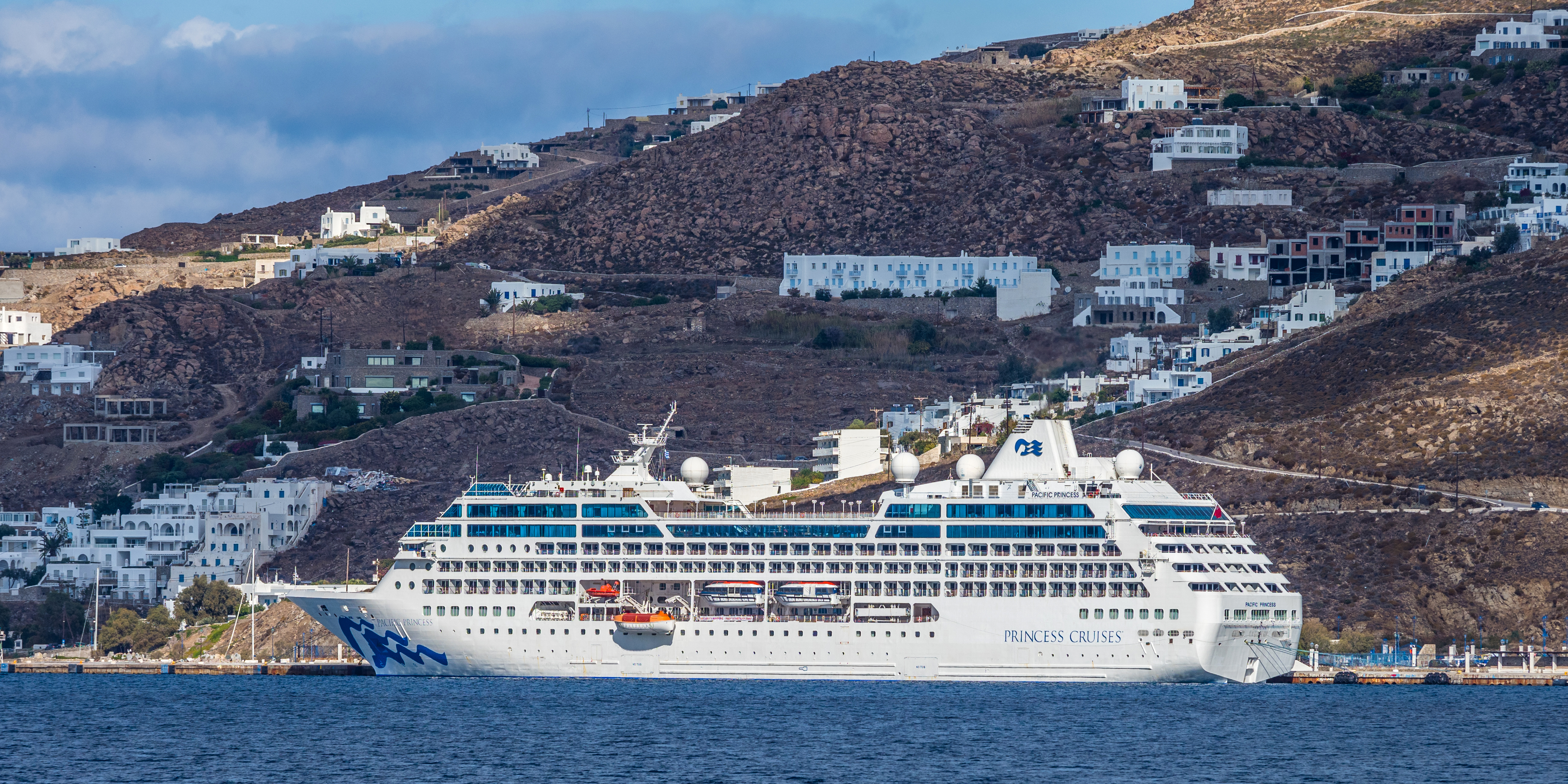 Mykonos Greece November 2017